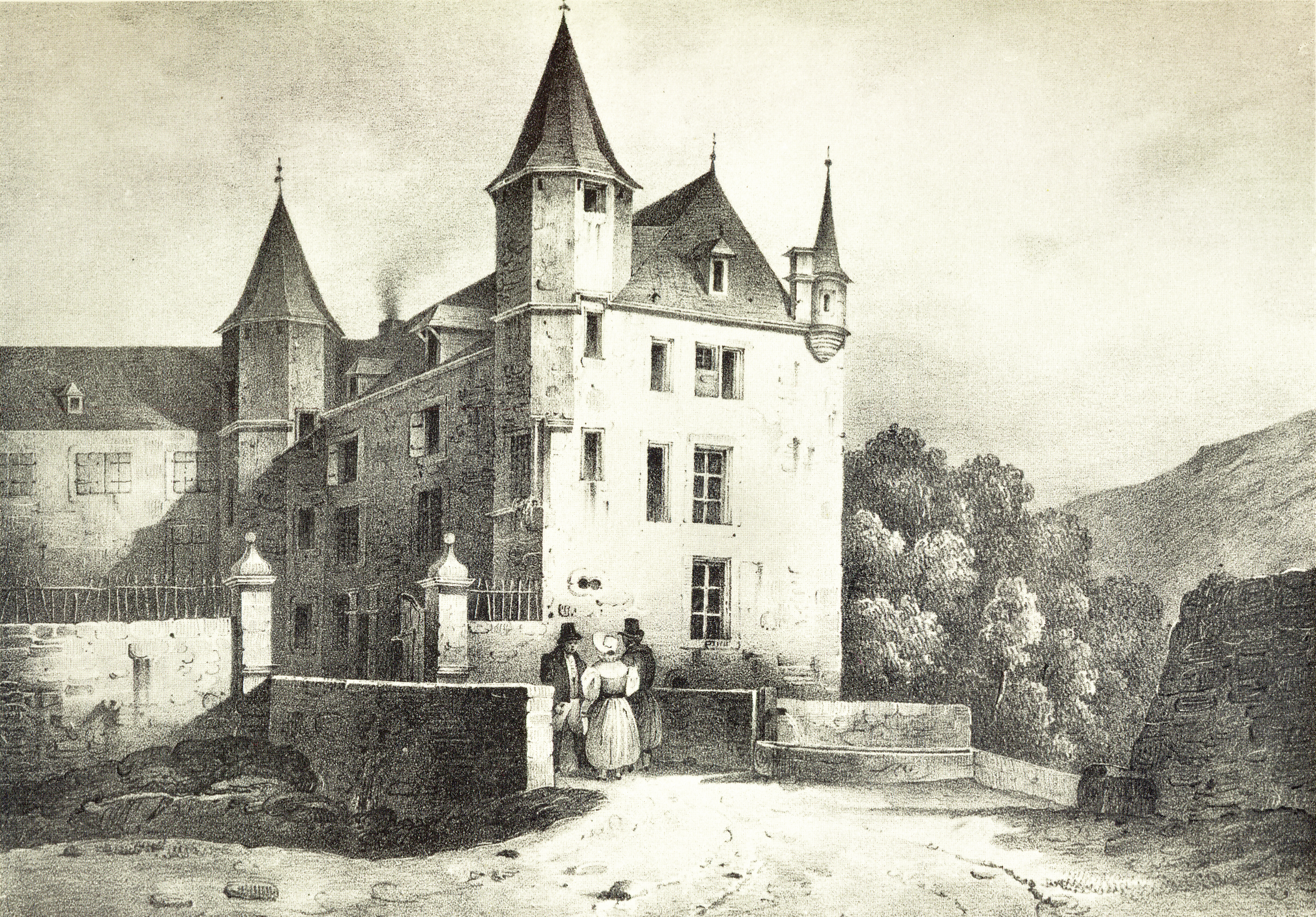 The castle of the Baron de Soleuvre in Differdange, Luxembourg. Drawing.